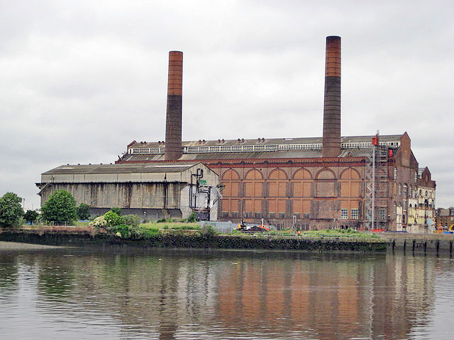 Chelsea: Former Lots Road power station